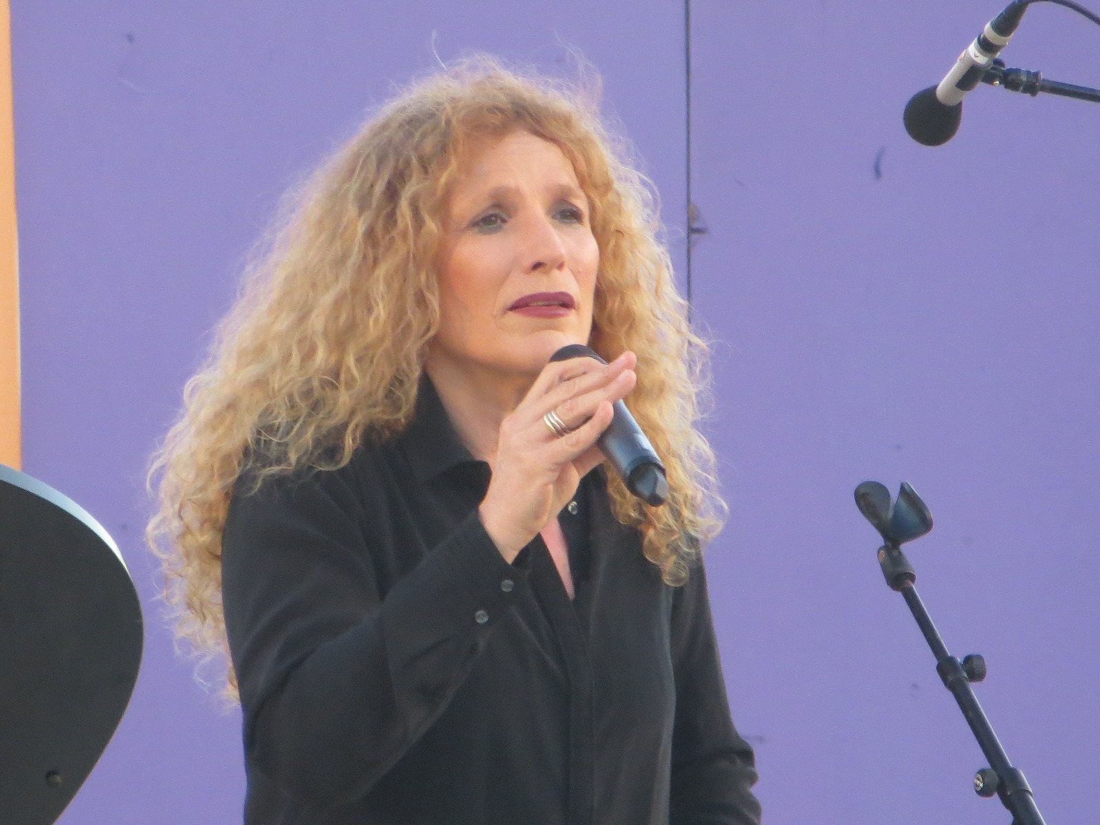 Entertainment